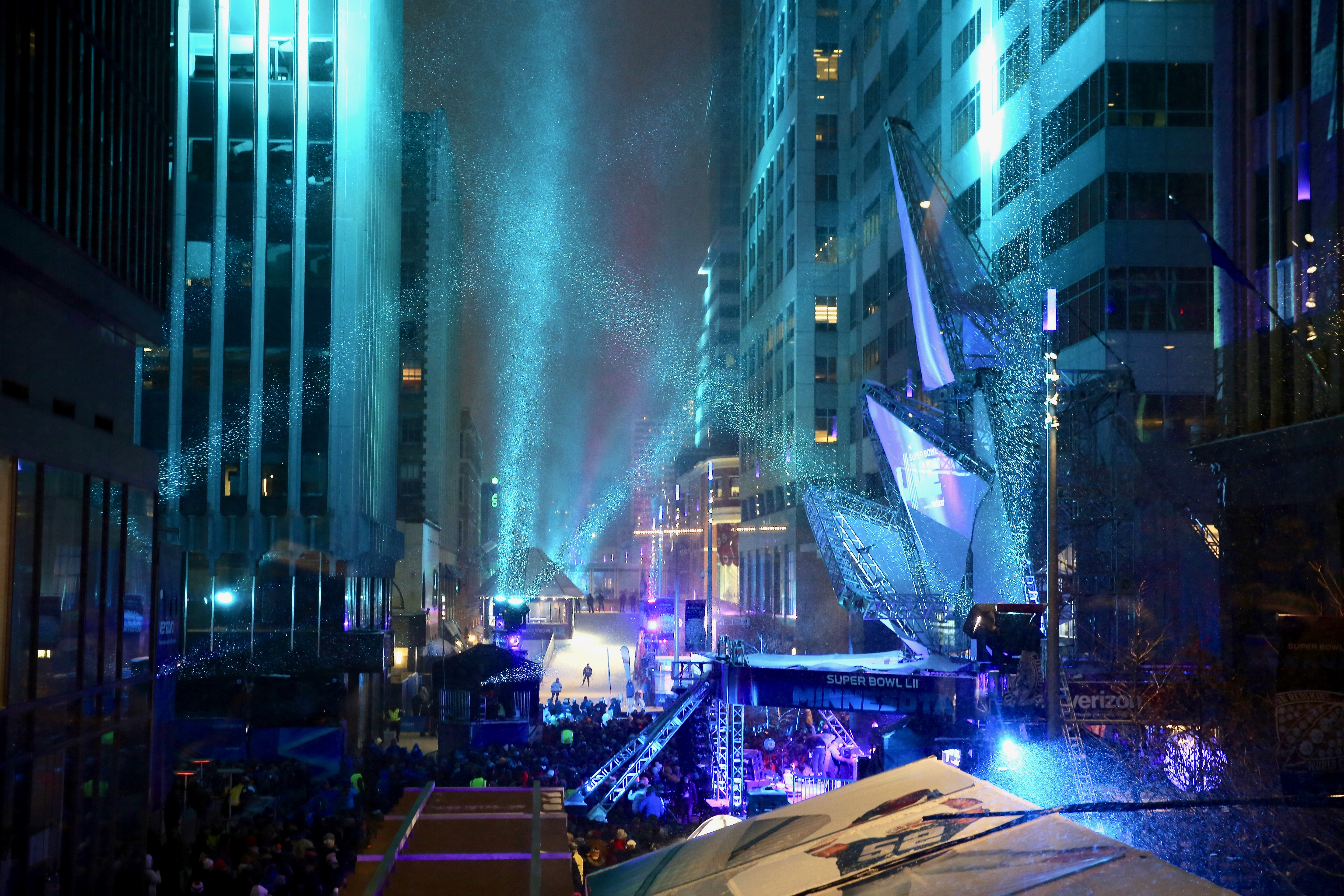 Super Bowl Live is 10-day party stretching across six blocks of downtown Minneapolis, Minnesota, leading up to the Super Bowl, the NFL championship football game between the Philadelphia Eagles and New England Patriots, Feb. 4, 2018.